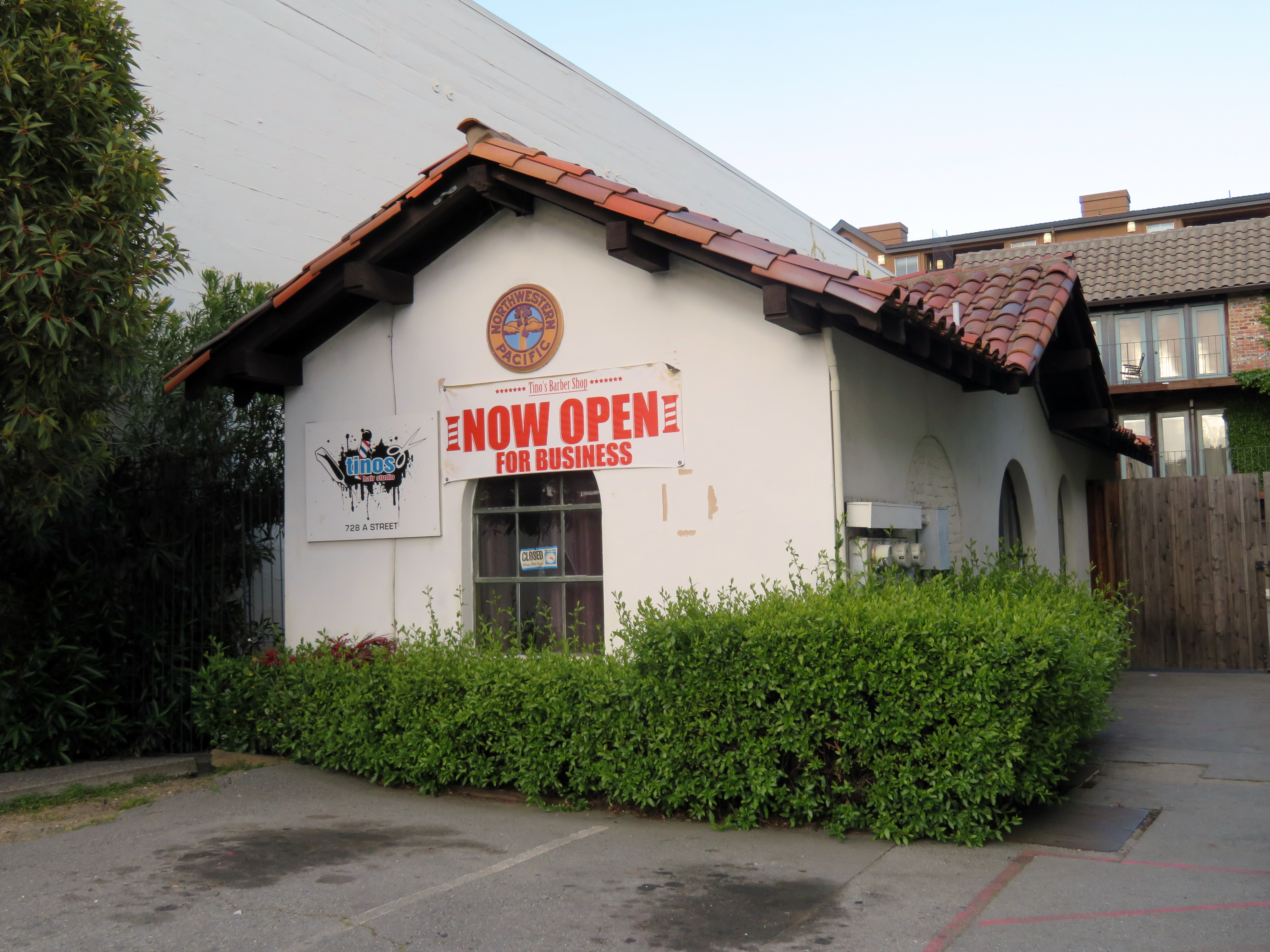 The former B Street station (moved one block to A Street as a private business) in San Rafael in April 2018